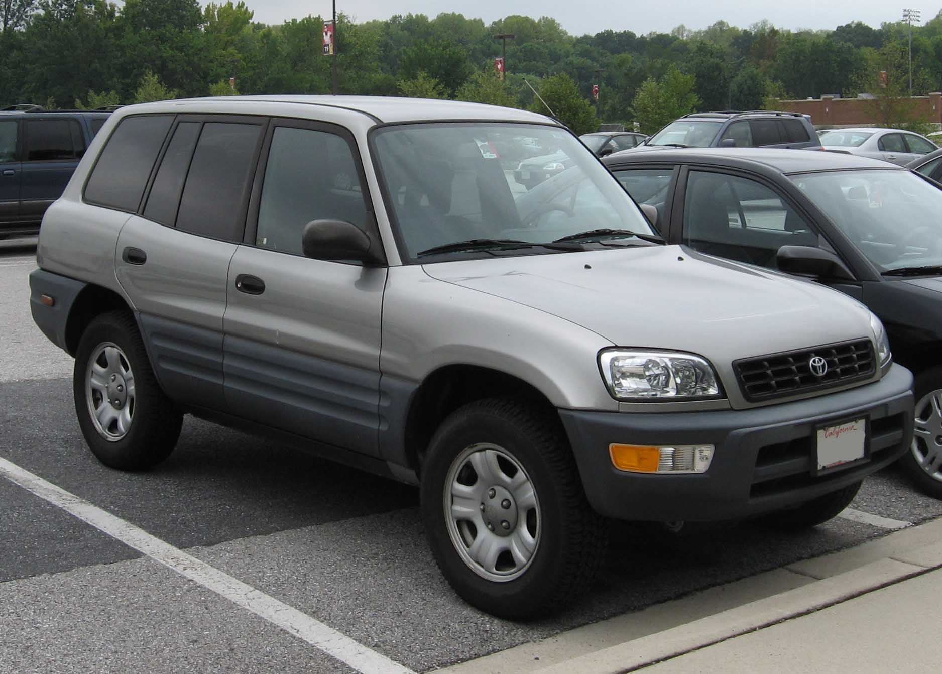 1998-2000 Toyota RAV4 photographed in USA.